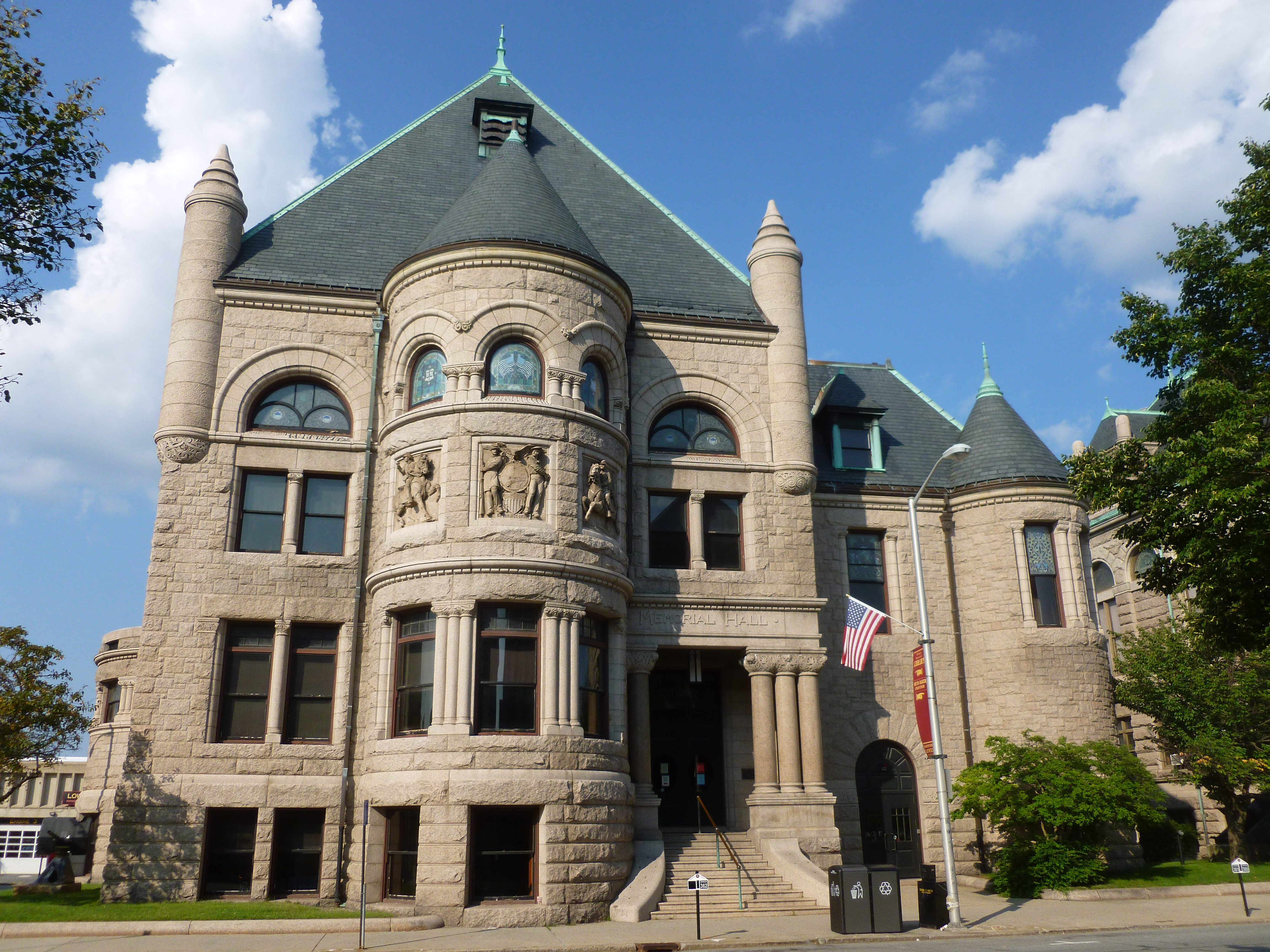 Pollard Memorial Library, located at 401 Merrimack Street, Lowell, Massachusetts. South (front) side of building shown.